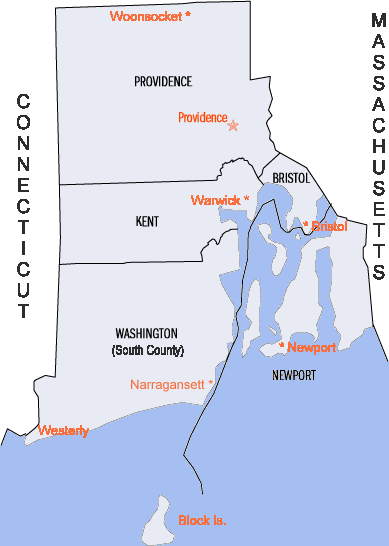 Drawing depicting Rhode Island (USA) counties in black, selected cities and towns in red. Map drawn by uploader based on public domain map at: map: Rhode Island Map of: Rhode Island.